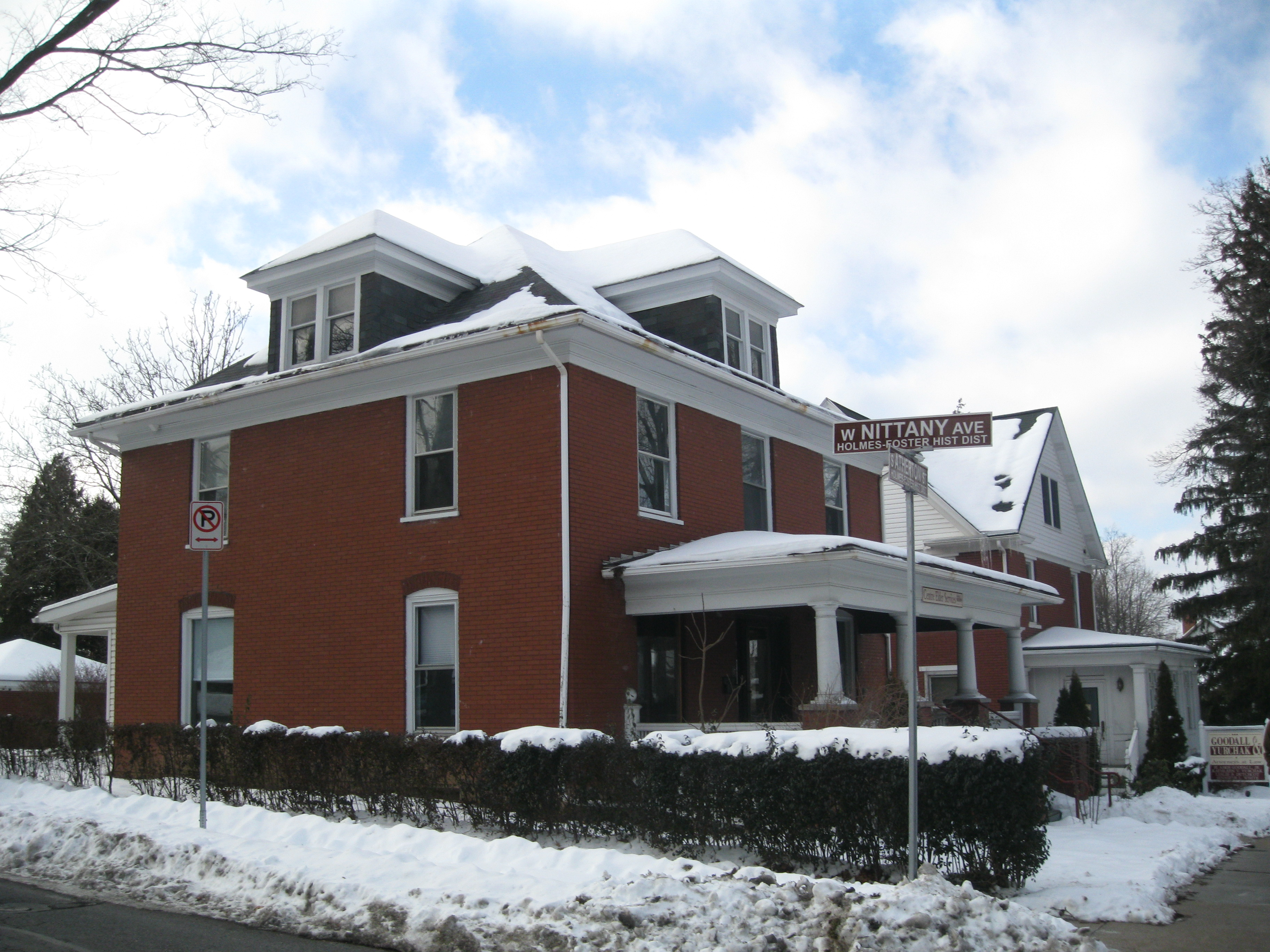 Houses at West Nittany Avenue and South Atherton Street in the Holmes-Foster-Highlands Historic District in the borough of State College, Centre County, Pennsylvania, USA. The district was added to the NRHP in 1995.